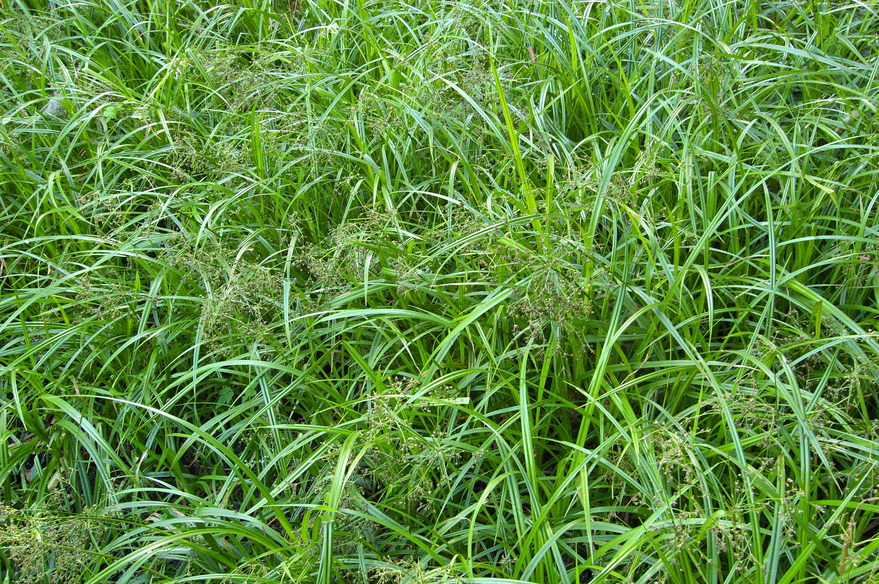 Inflorescences of Scirpus sylvaticus.